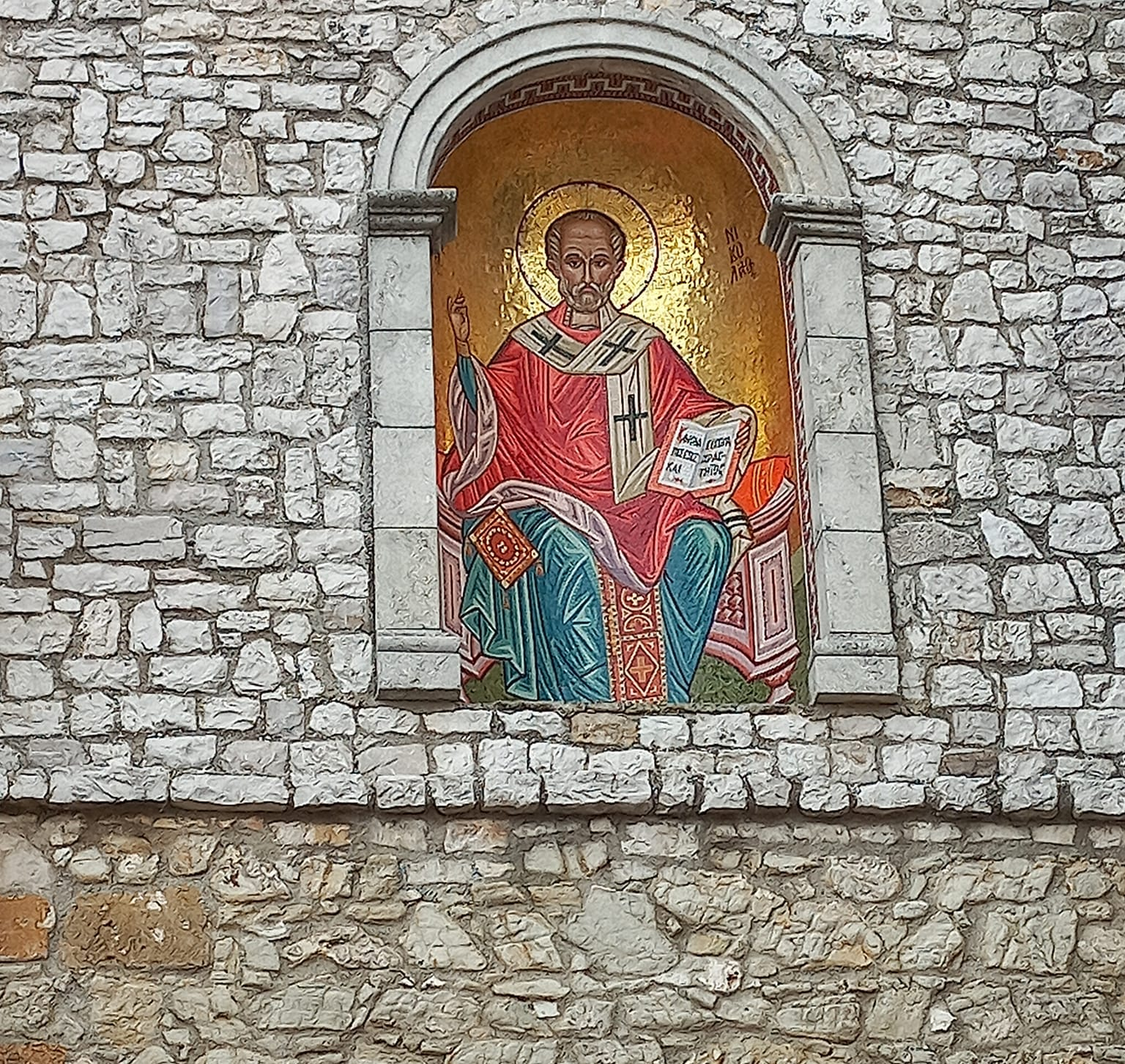 Byzantine mosaic of the Mother Church of the Eastern Rite of Contessa Entellina.